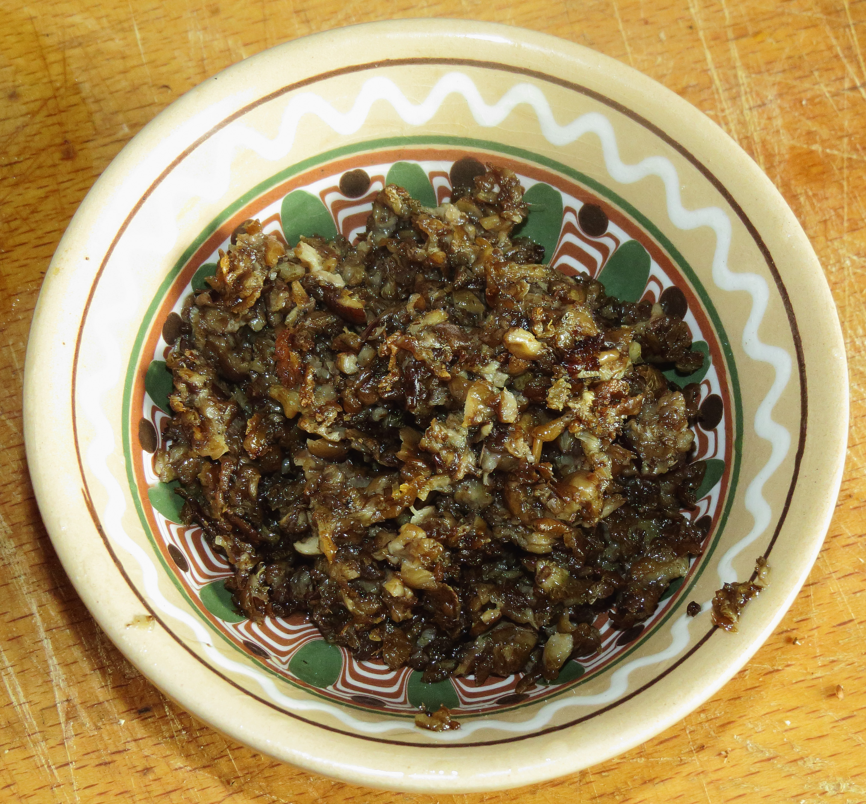 Garlic mushrooms (Mycetinis scorodonius) fried with butter